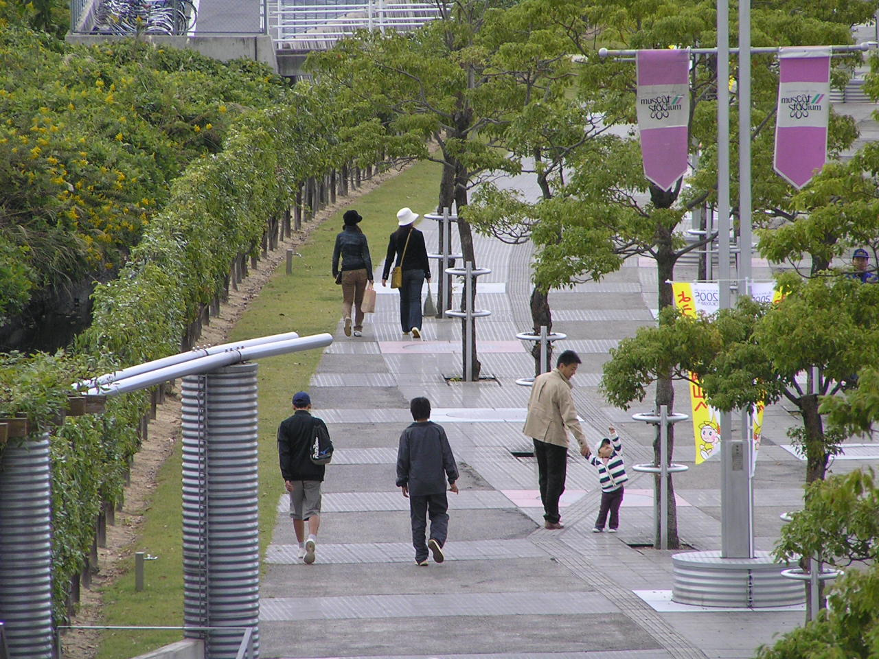 Stroll road that runs to muscat stadium